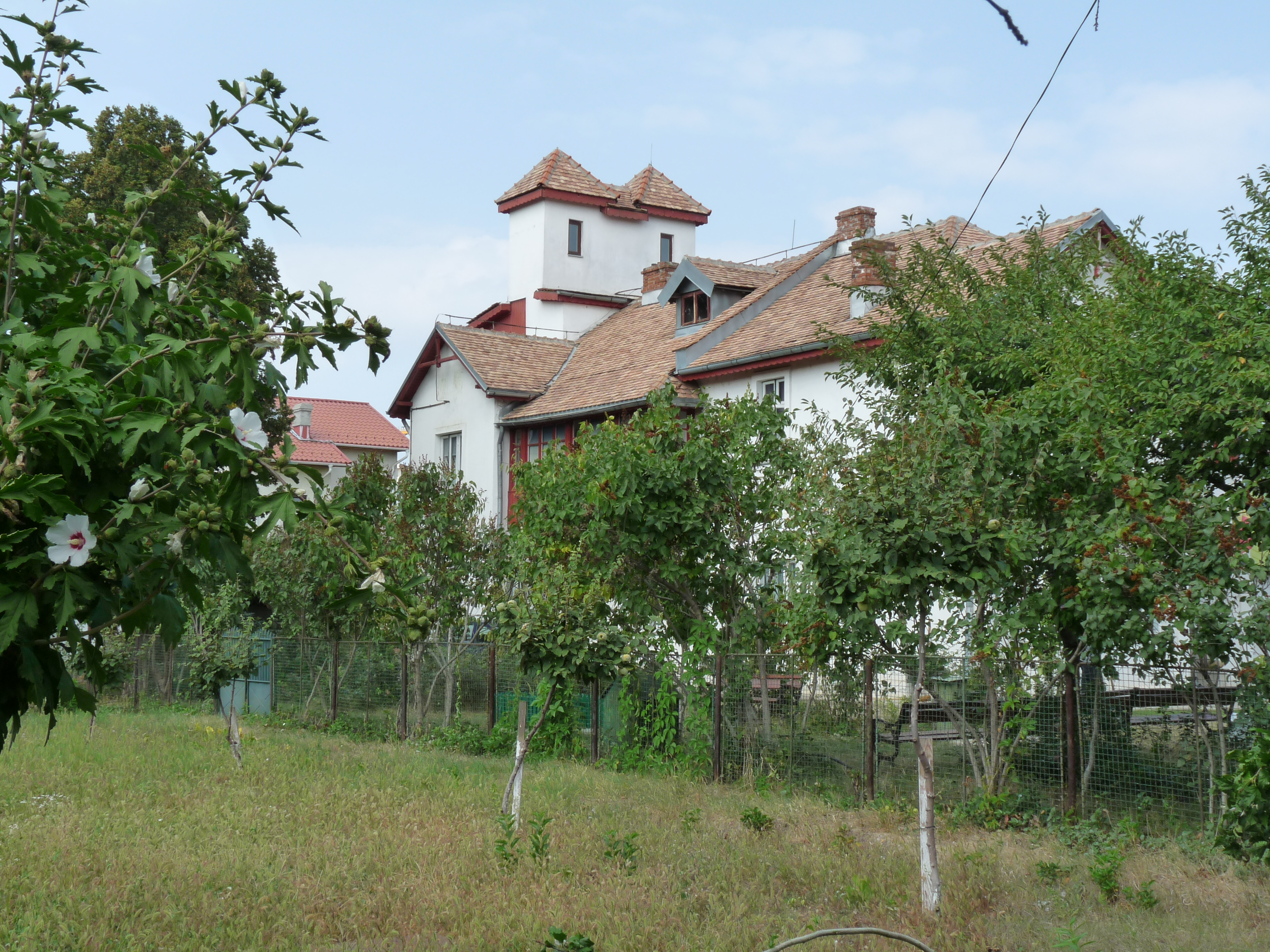 Tudor Arghezi memorial museum in Bucharest, RomaniaRomână: Casa memorială Tudor Arghezi din București, România